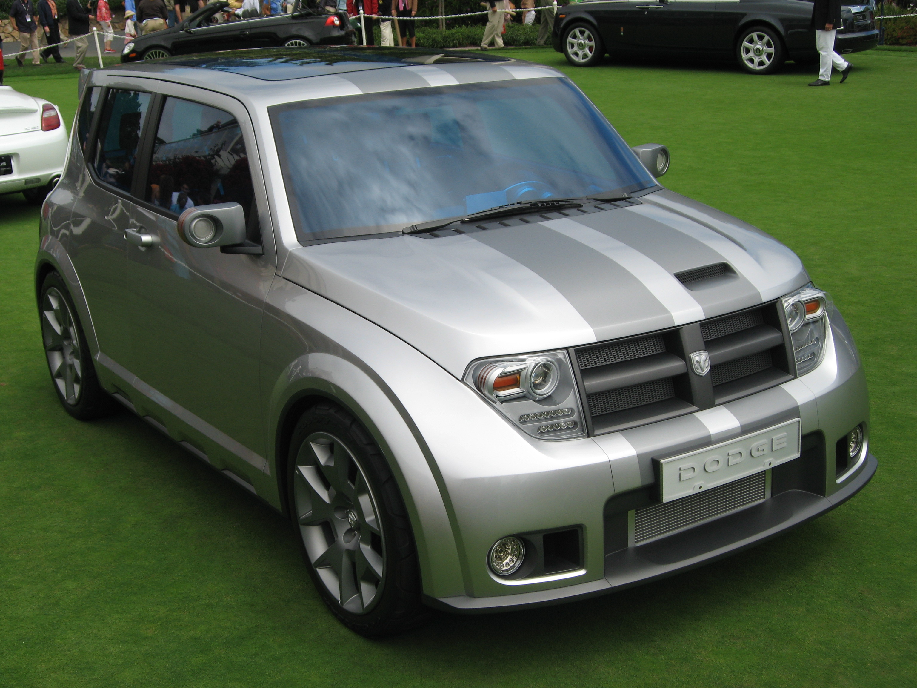 2006 Dodge Hornet concept, as show at the Pebble Beach Concours d'Elegance.